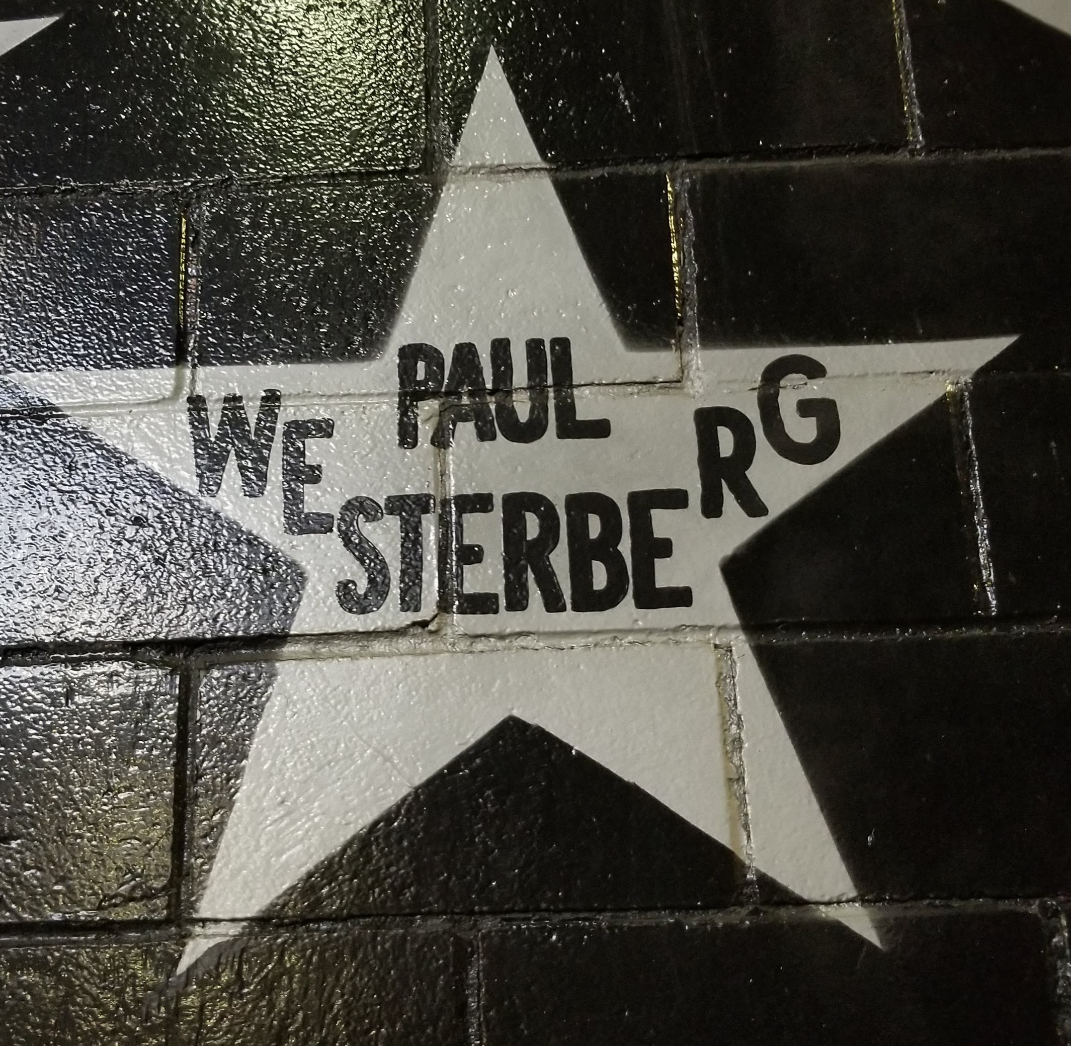 Star representing musician Paul Westerberg on the outside mural of the Minneapolis nightclub First Avenue